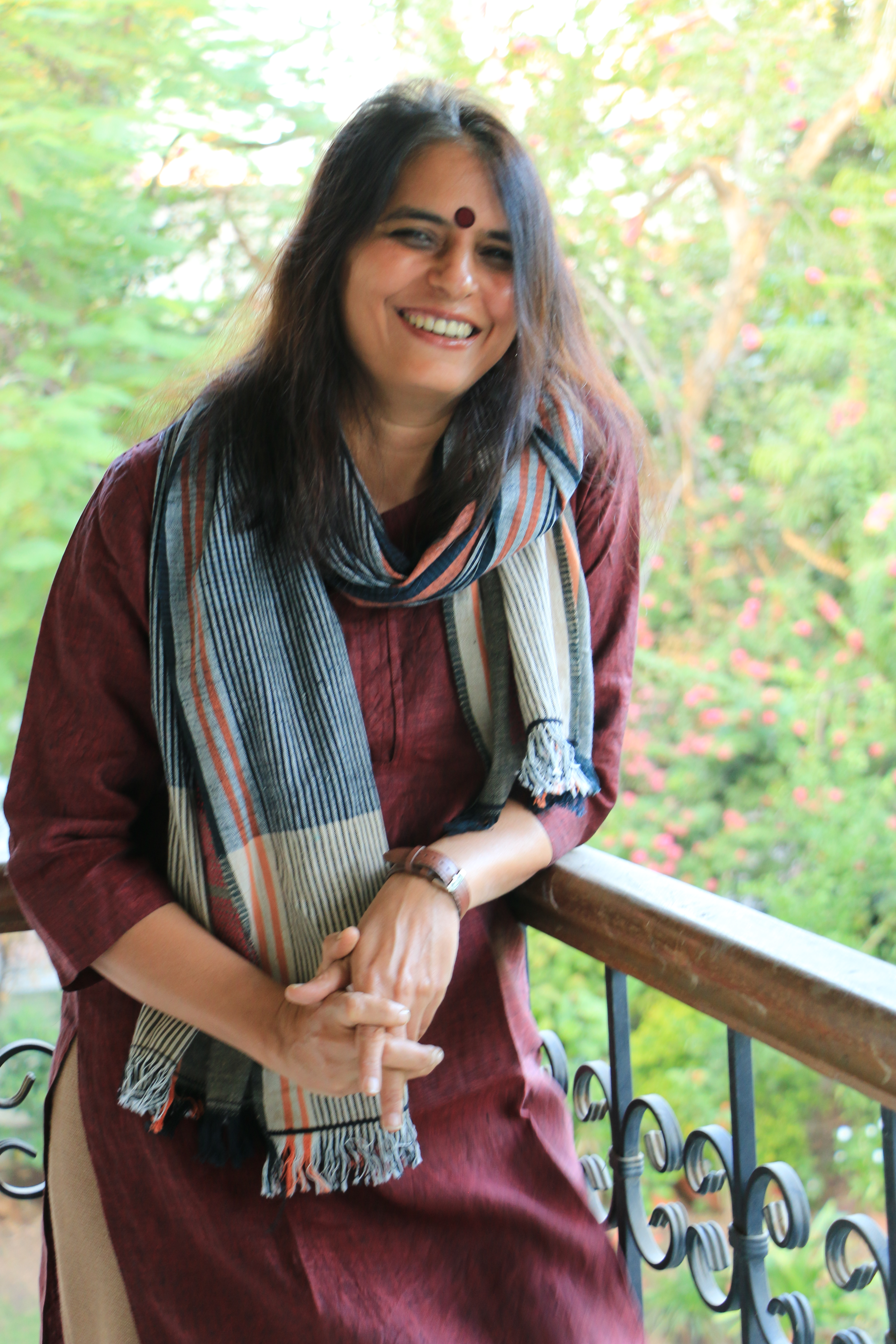 Rita Kothari, a Gujarati and English language writer and Translator.